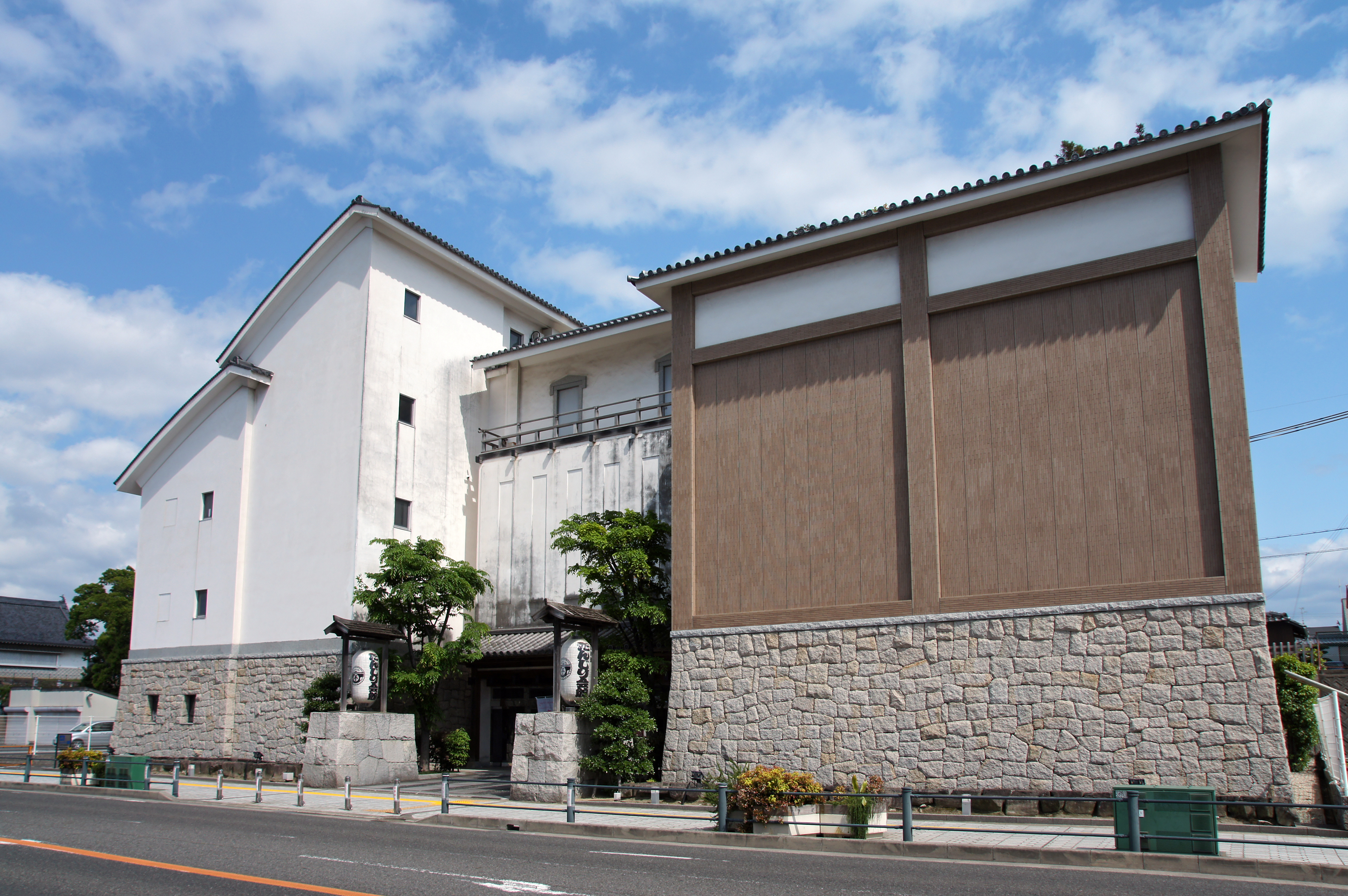 Kishiwada_Danjiri_Kaikan in Kishiwada, Osaka prefecture, Japan